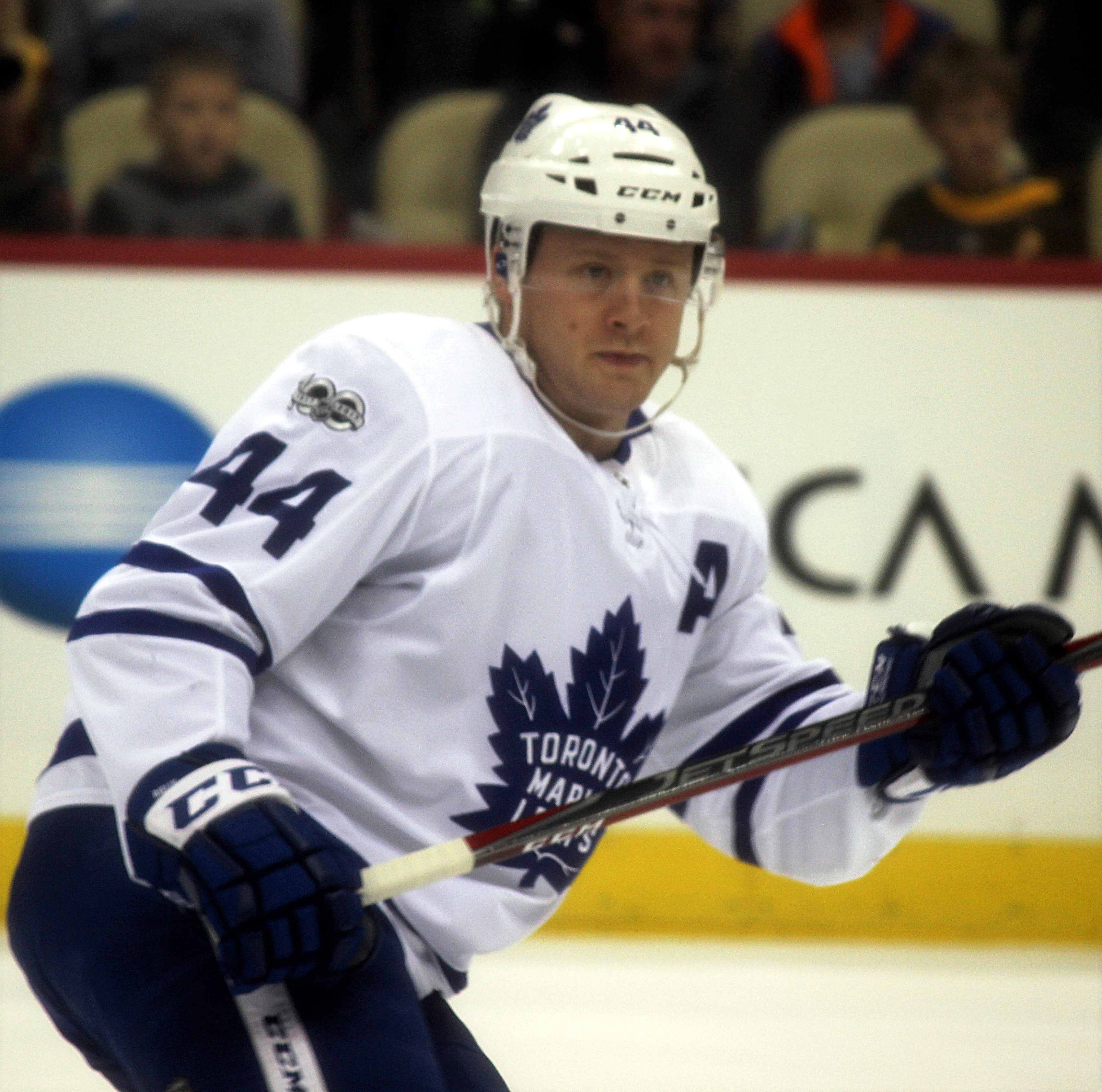 Toronto Maple Leafs defenseman Morgan Rielly during a game against the Pittsburgh Penguins, December 9, 2017, at PPG Paints Arena in Pittsburgh, PA.